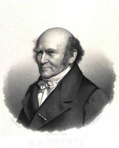 German-Danish architect and professor Gustav Friederich Hetsch (1788-1864).